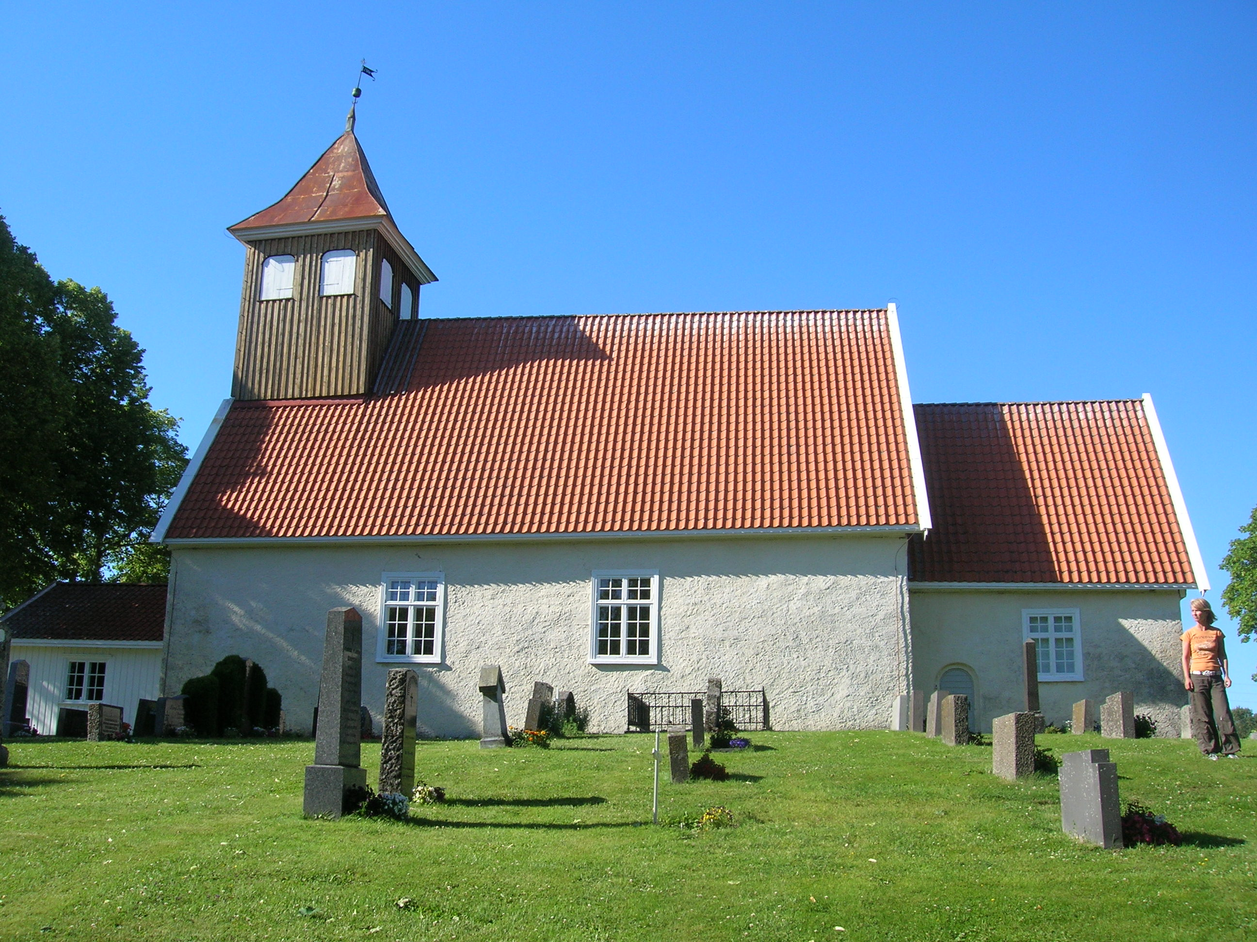 Rødenes church in Marker, Østfold. Photo July 9, 2010 with a Nikon Coolpix 5600 5,1 Megapixel camera.